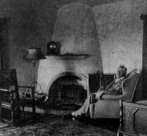 Joseph Franklin Rutherford at his home Beth Sarim - in 1930s Southern California.